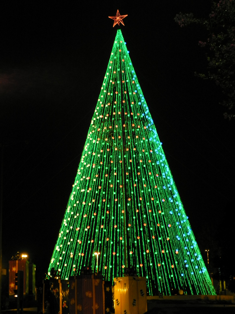 Chistmas tree at España square. Córdoba City, Argentina.